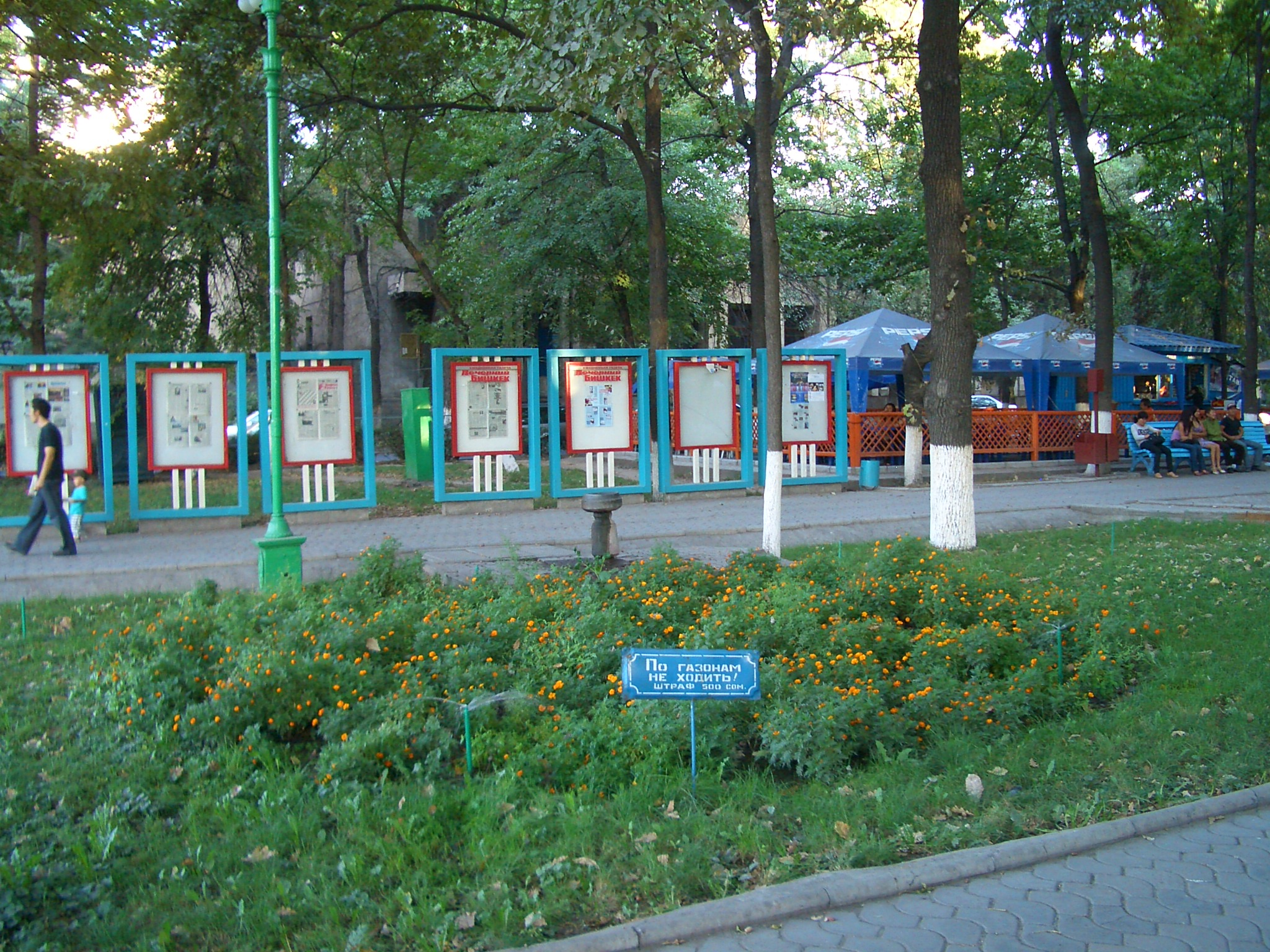 In accordance with an old tradition, Bishkek's main newspaper gets posted on special stands in Erkindik Blvd, for everyone to read for free.